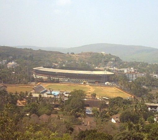 Jawaharlal Nehru Stadium in Margao, Goa, India, Picture taken from Monte Hill. Author:Amey Hegde Source URL